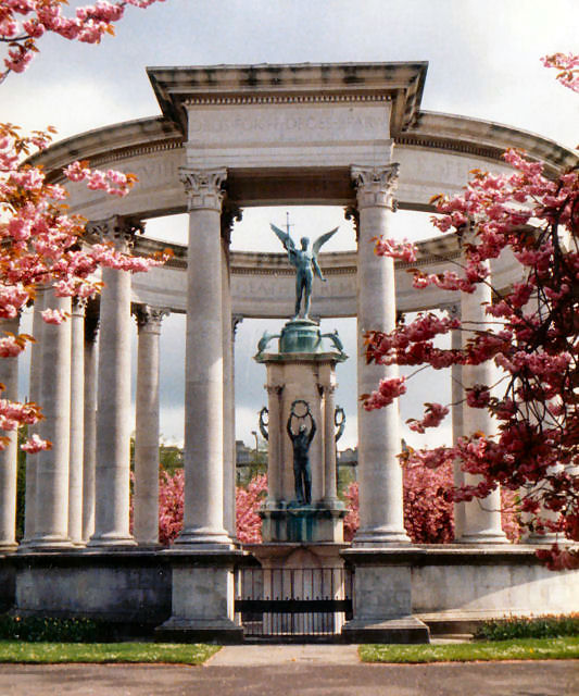 Welsh National War Memorial